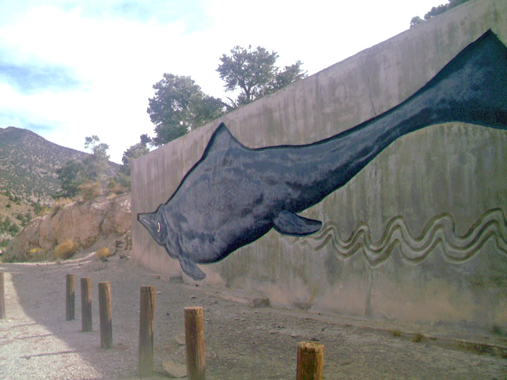 The ichthyosaurs found here were once the largest ones found. Since then though, they have discovered larger ones in Canada. The specific ones found in Berlin-Ichthyosaur are Shonisaurus. For more information on ichthyosaurs, check out